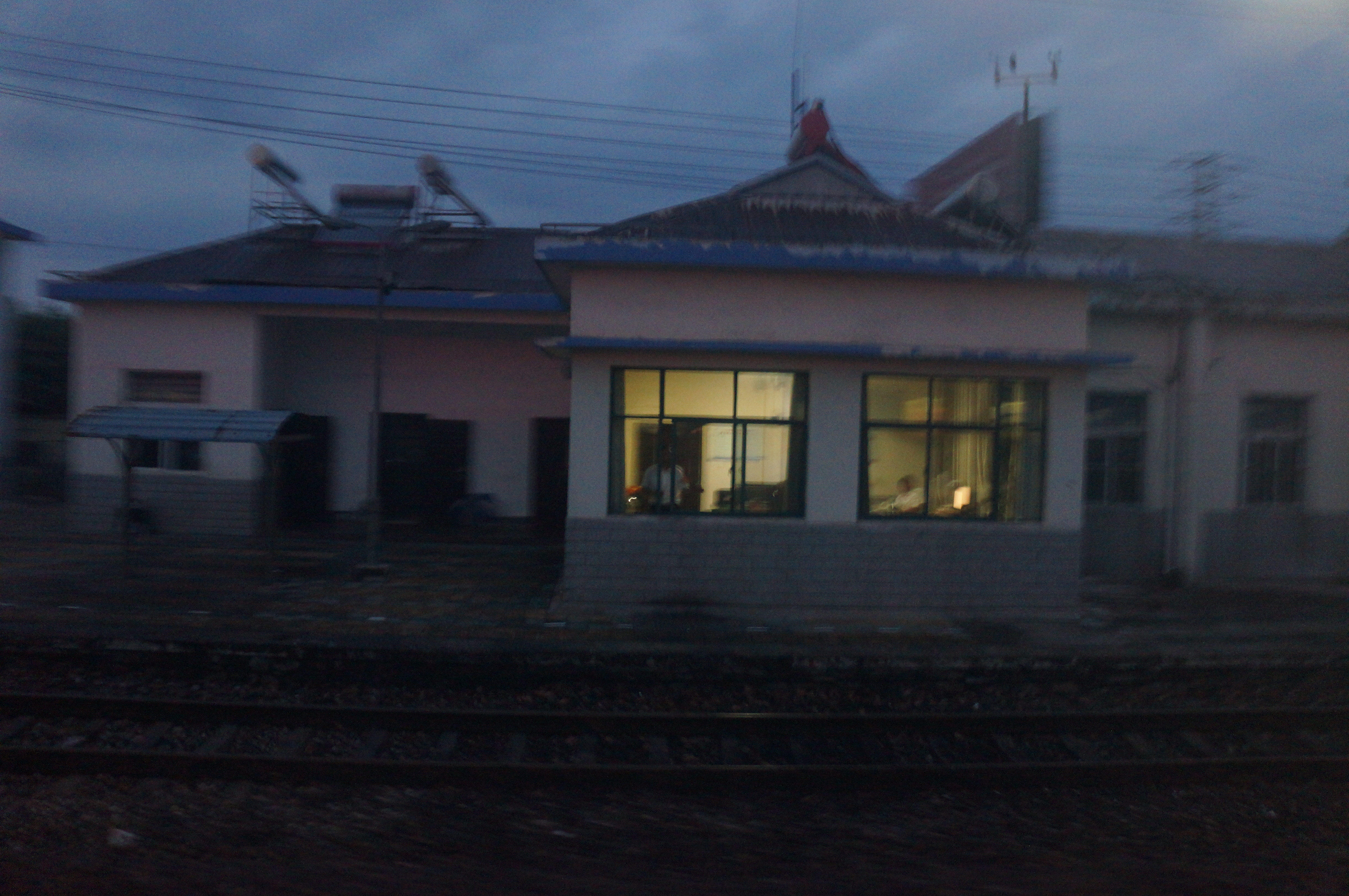 201806 Conductor of Suzhou Station